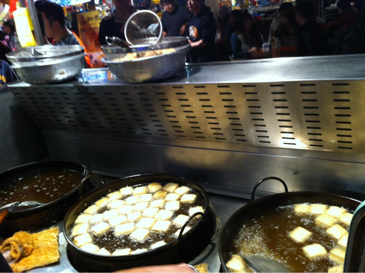 stinky tofu